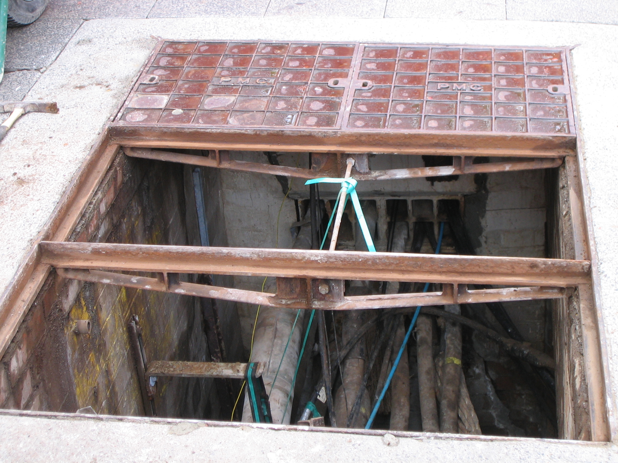 PMG (Postmaster-General's Department) manhole, Perth, Western Australia.